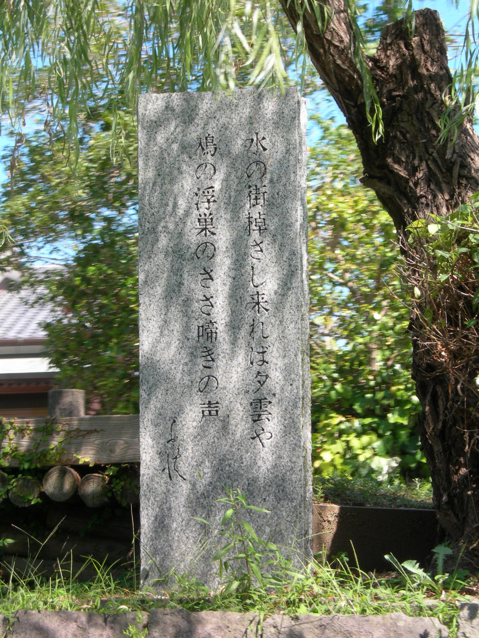 Stele of Hakushū Kitahara, Yanagawa, Fukuoka.